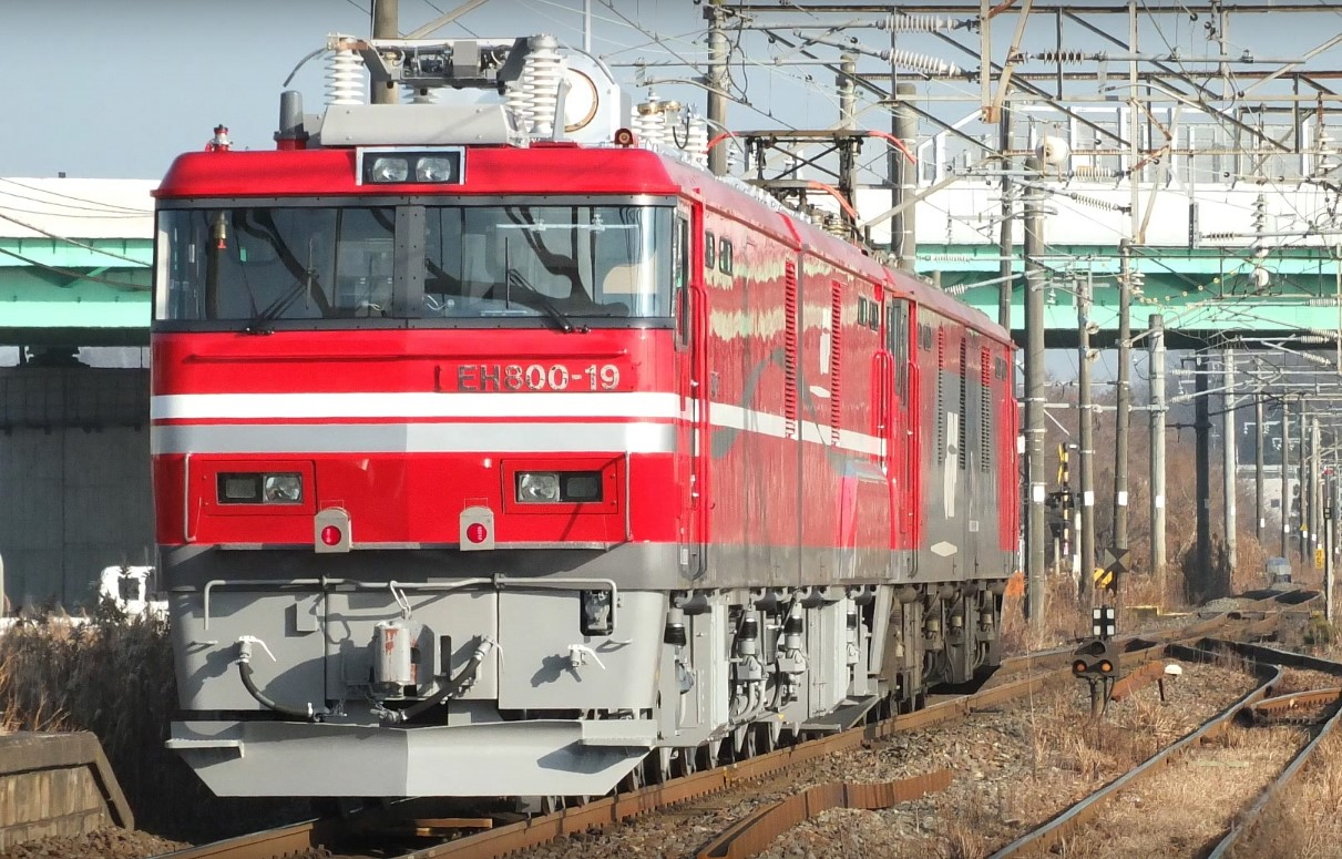 Newly delivered JR Freight Class EH800 electric locomotive EH800-19 being hauled by EH500-32 through Rikuzen-Sanno Station on the Tohoku Main Line on its way from the Toshiba factory in Tokyo to Goryokaku Depot in Hokkaido